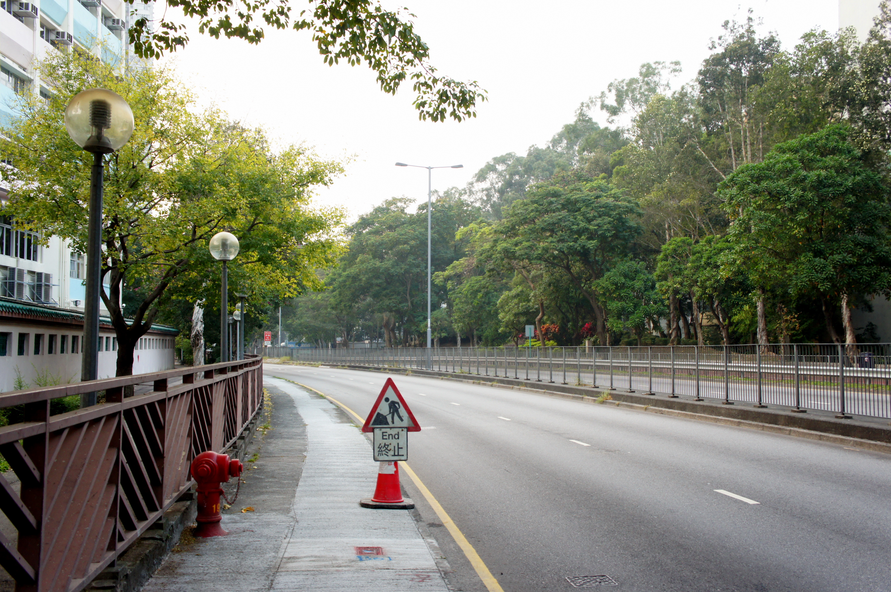 Jockey Club Road, Fanling, New Territories, Hong Kong.